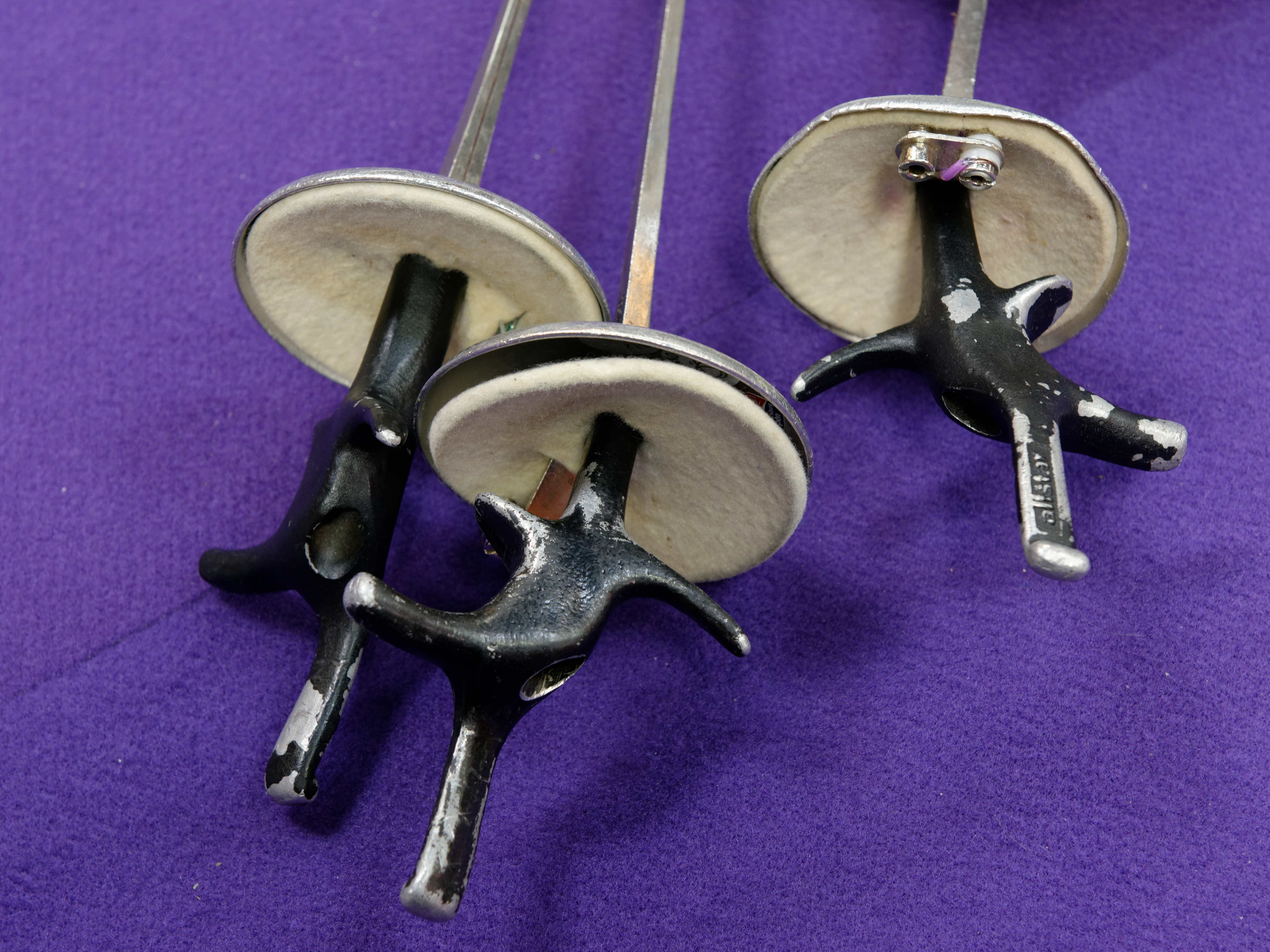 Three pistol-grip fencing at the French Fencing Championship. Éric Tabarly Sports Complex in Antony, 2013.